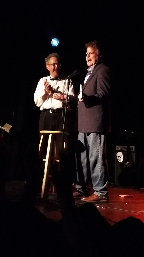 The final performance of Tomorrow! at the Steve Allen Theater on September 30, 2017. Pictured are the host Ron Lynch and frequent guest, magician John Carney